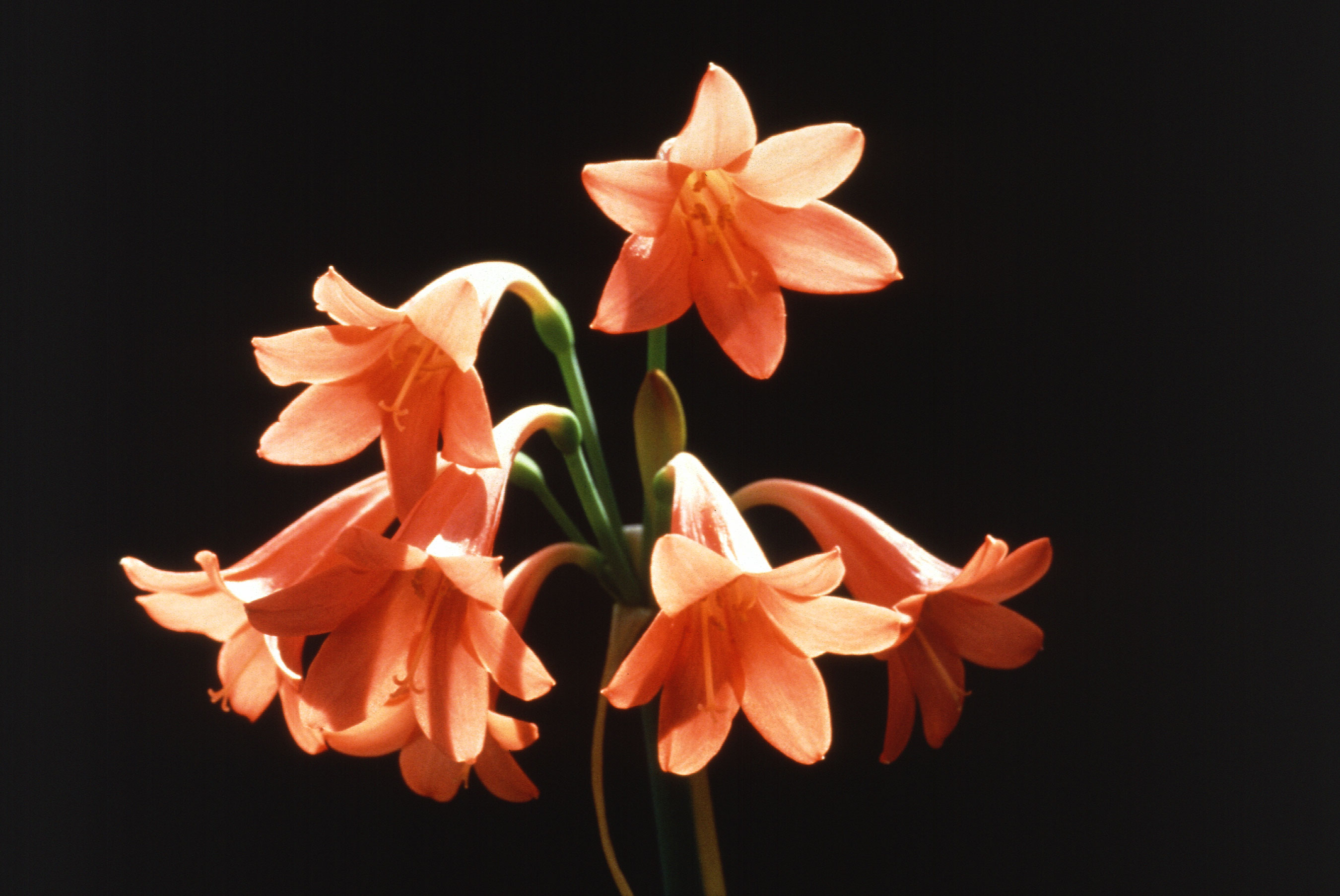 Fire lily, a Cyrtanthus hybrid.